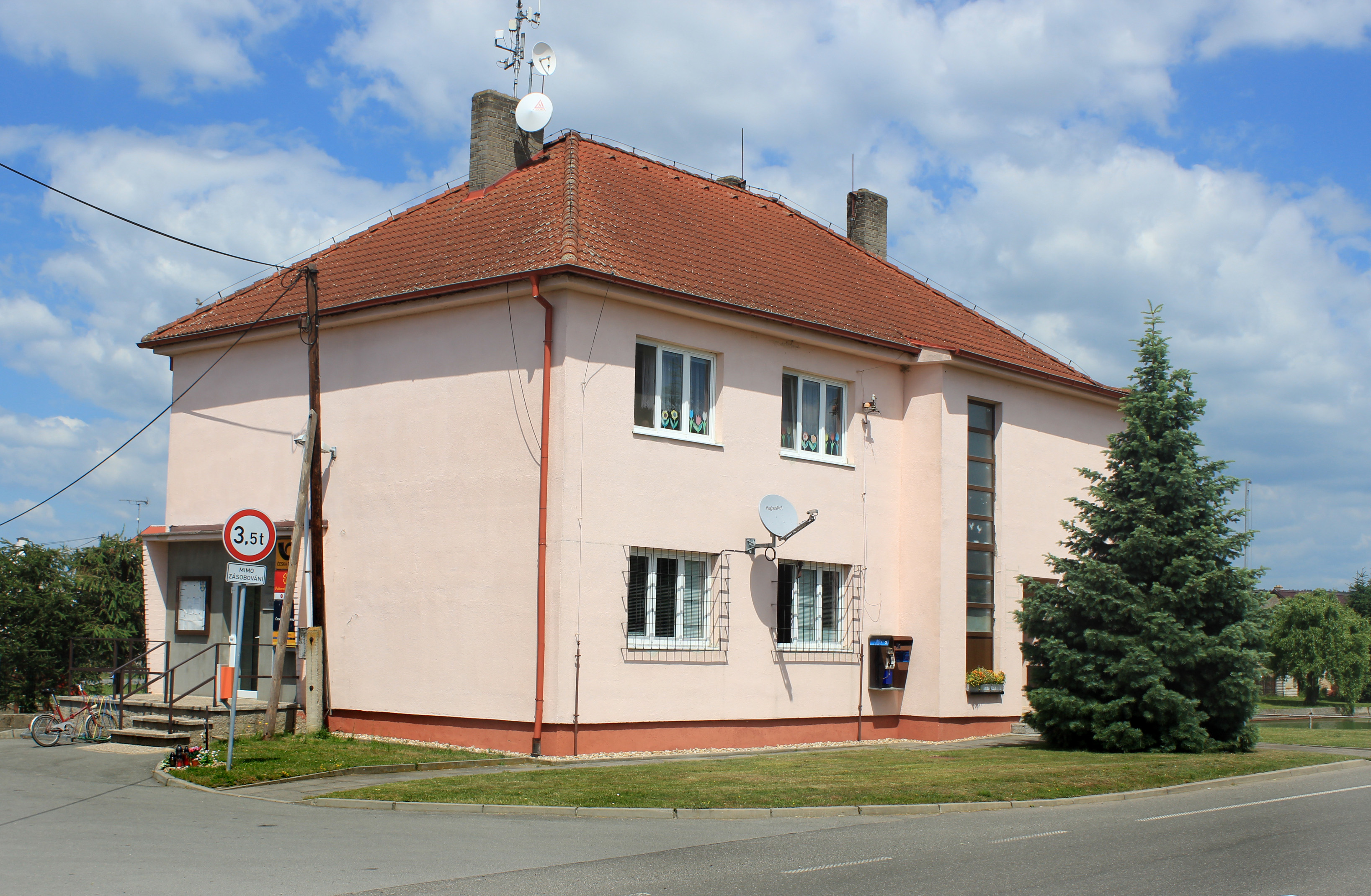 Municipal office in Dlouhá Lhota, Czech Republic.